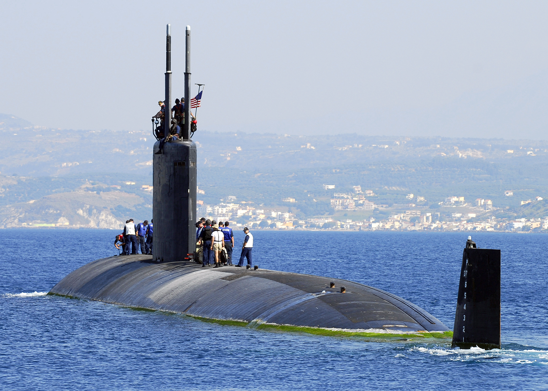 SOUDA BAY, Crete, Greece (June 15, 2007) - Los Angeles-class fast-attack submarine USS Scranton (SSN 756) departs Souda harbor following a routine port visit to Greece's largest island. Scranton is on deployment as part of the Bataan Expeditionary Strike Group (ESG), which returned earlier this month to the 6th Fleet area of responsibility. Bataan ESG has the capabilities to support maritime operations, combat operations and humanitarian assistance/disaster relief. U.S. Navy photo by Mr. Paul Farley (RELEASED)